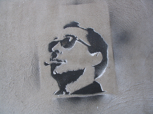 Graffiti stencil of Jean-Luc Godard in Rue Villeneuve, Montreal, Canada.